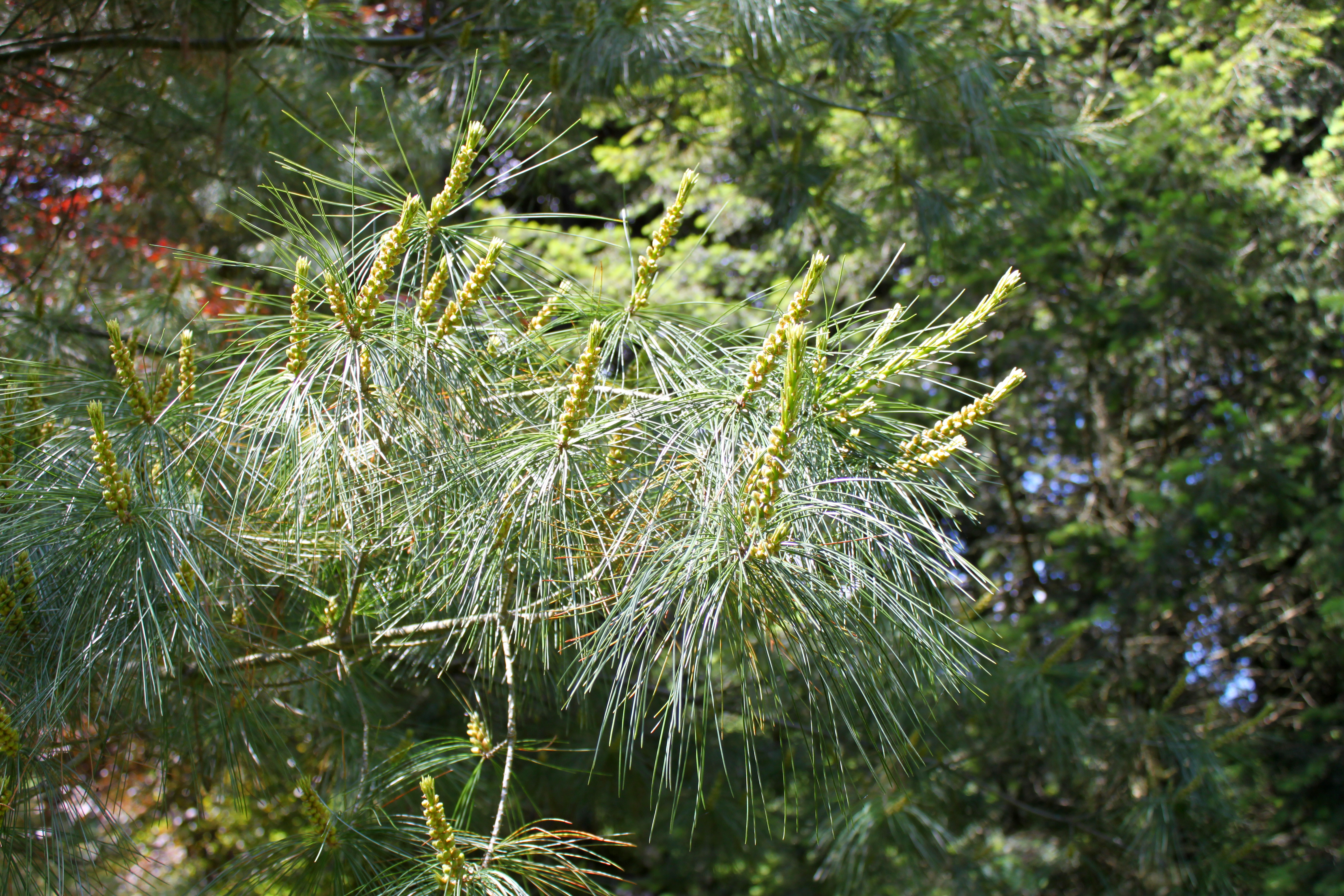 Chinese White Pine (Pinus armandii) foliage, Rogów Arboretum, Poland